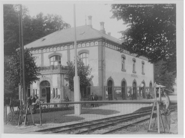 Arendal Station, then the terminus of the Sørland Line, now of the Arendal Line